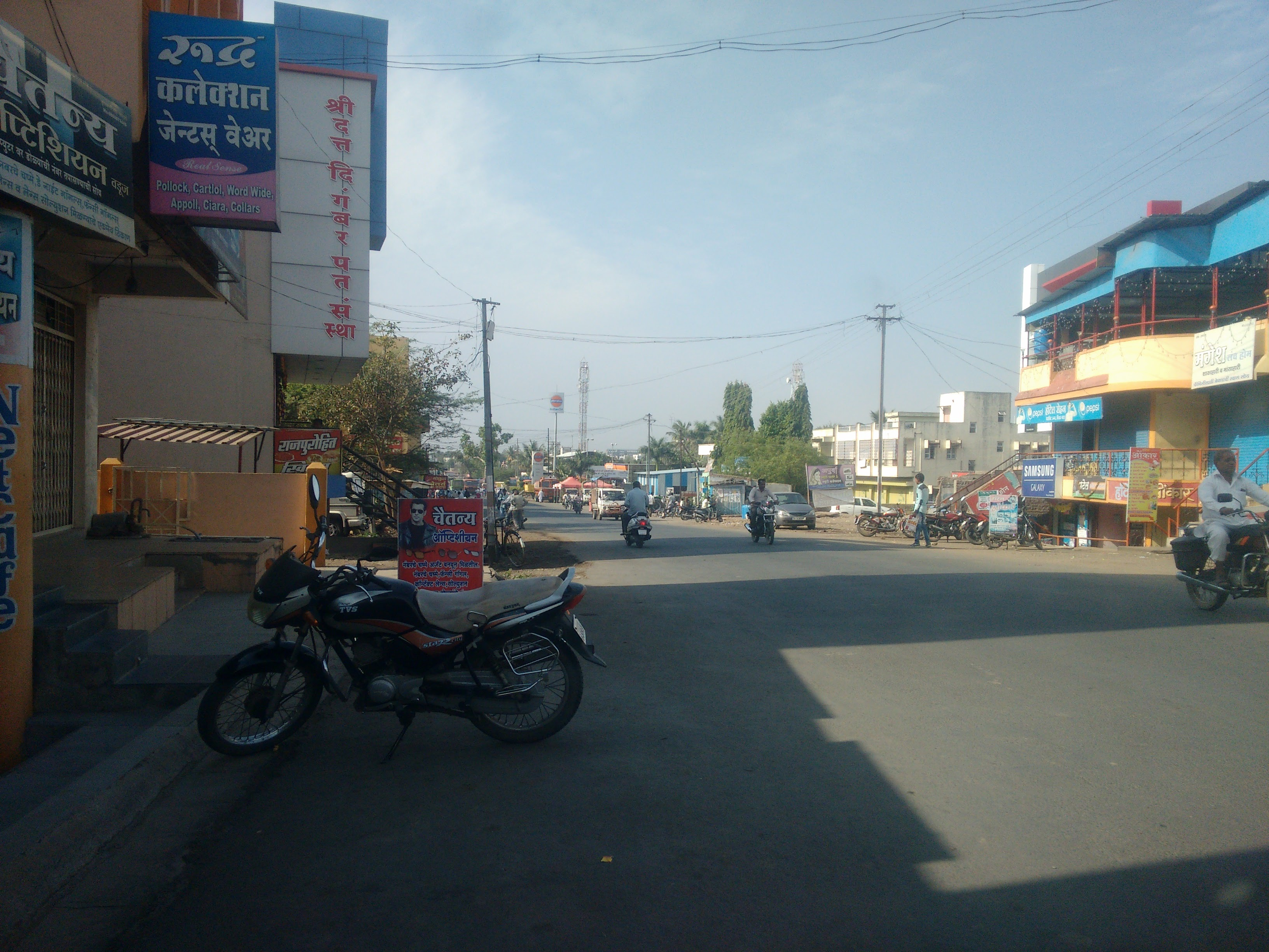 Main Road,Vaduj.